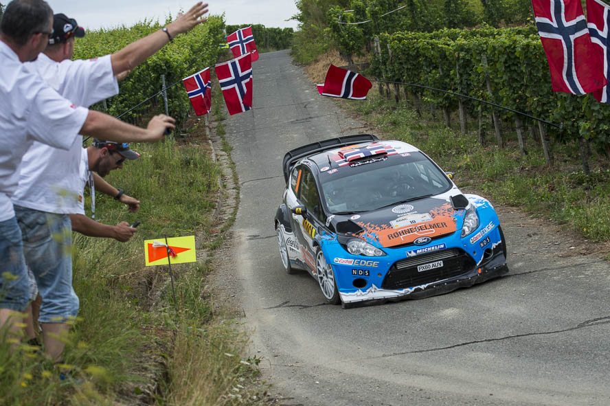 Rally Germany 2012 ADAC Rallye Deutschland,Adapta WRT,Adapta World Rally Team,Ford Fiesta RS WRC,Jonas Andersson,Mads Östberg,Moselland,Motorsport,Rally,Rallye,Rallye Deutschland,SS5,WP5,WRC